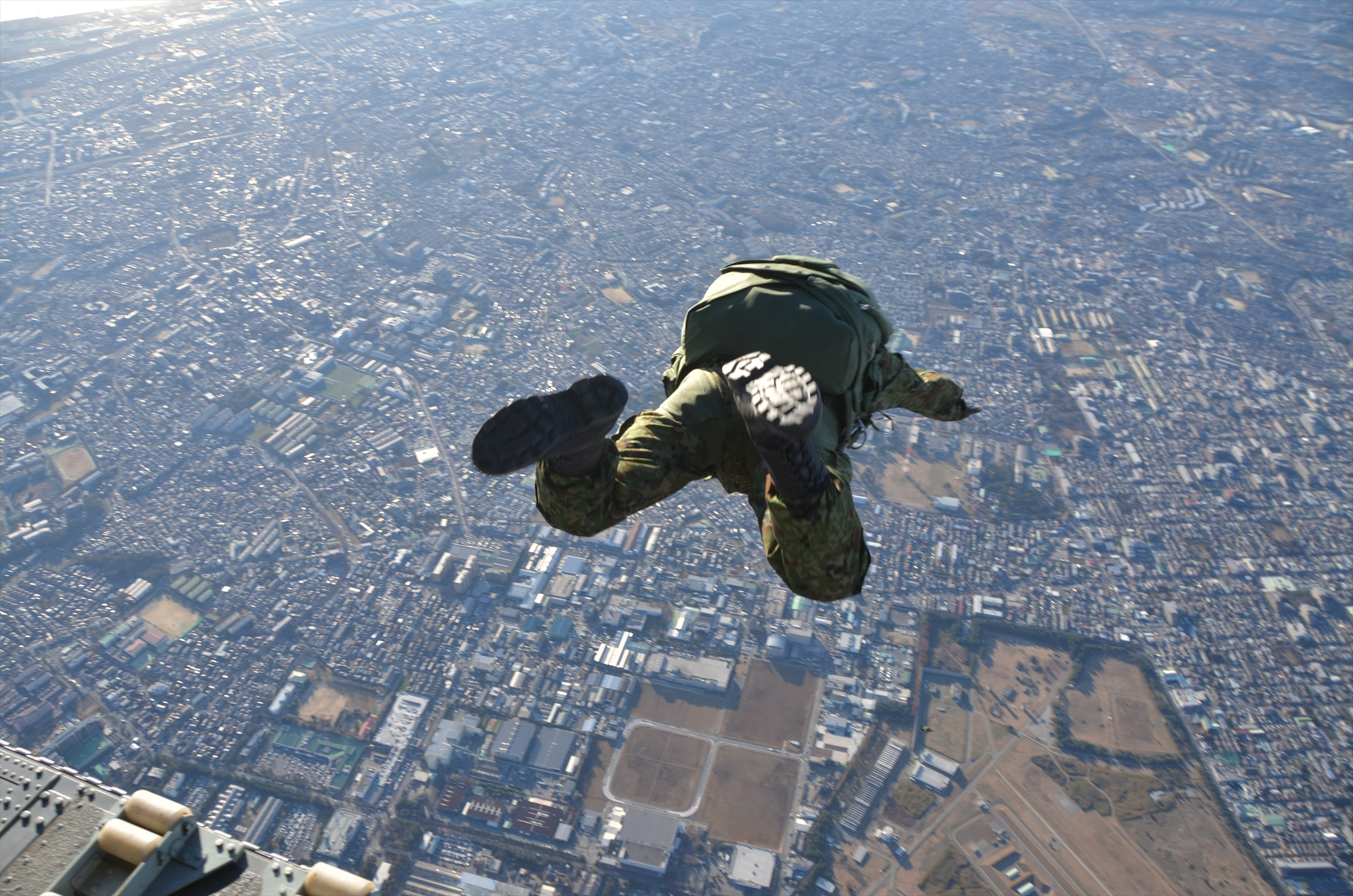 Title ABN-MY-5 (練成降下訓練)_R.JPG Album 教育訓練等 練成降下訓練